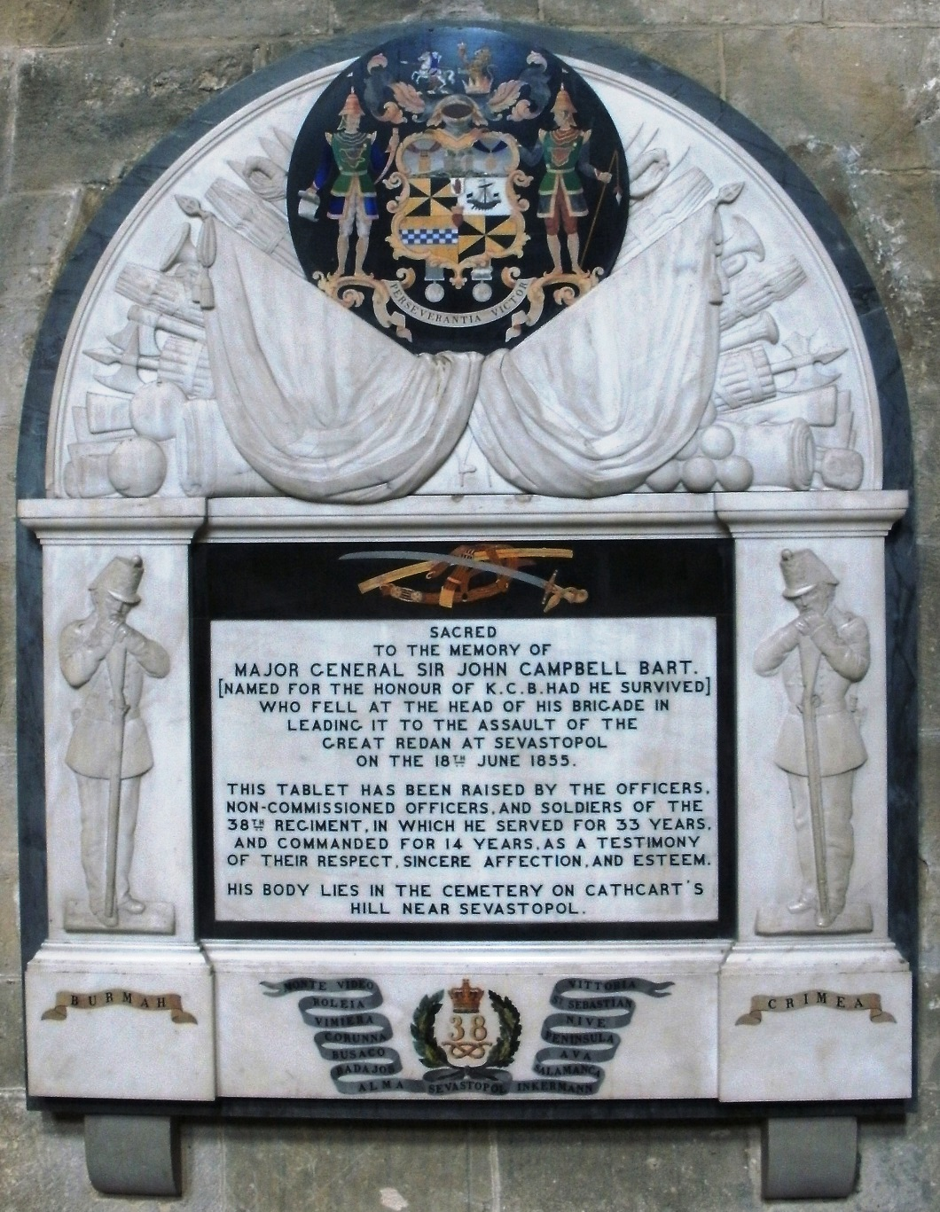 Memorial to Major General Sir John Campbell, Baronet (1807-1855) in Winchester Cathedral. Location: South Transept.